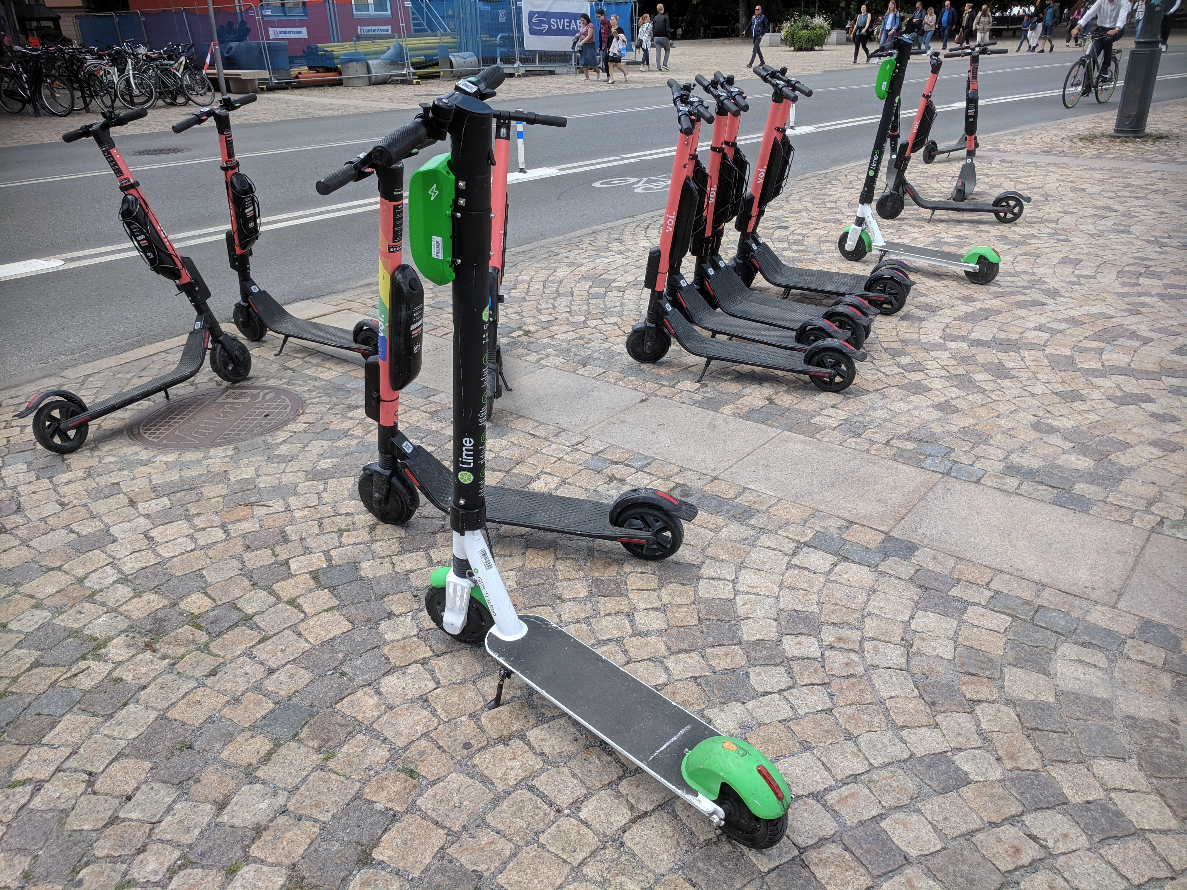 ElectroScooter in Stockholm